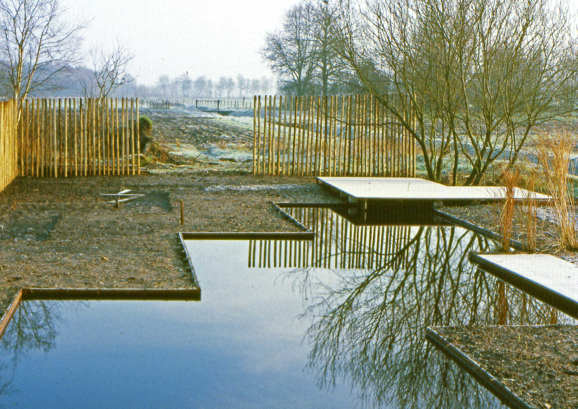 Design ornamental grass garden